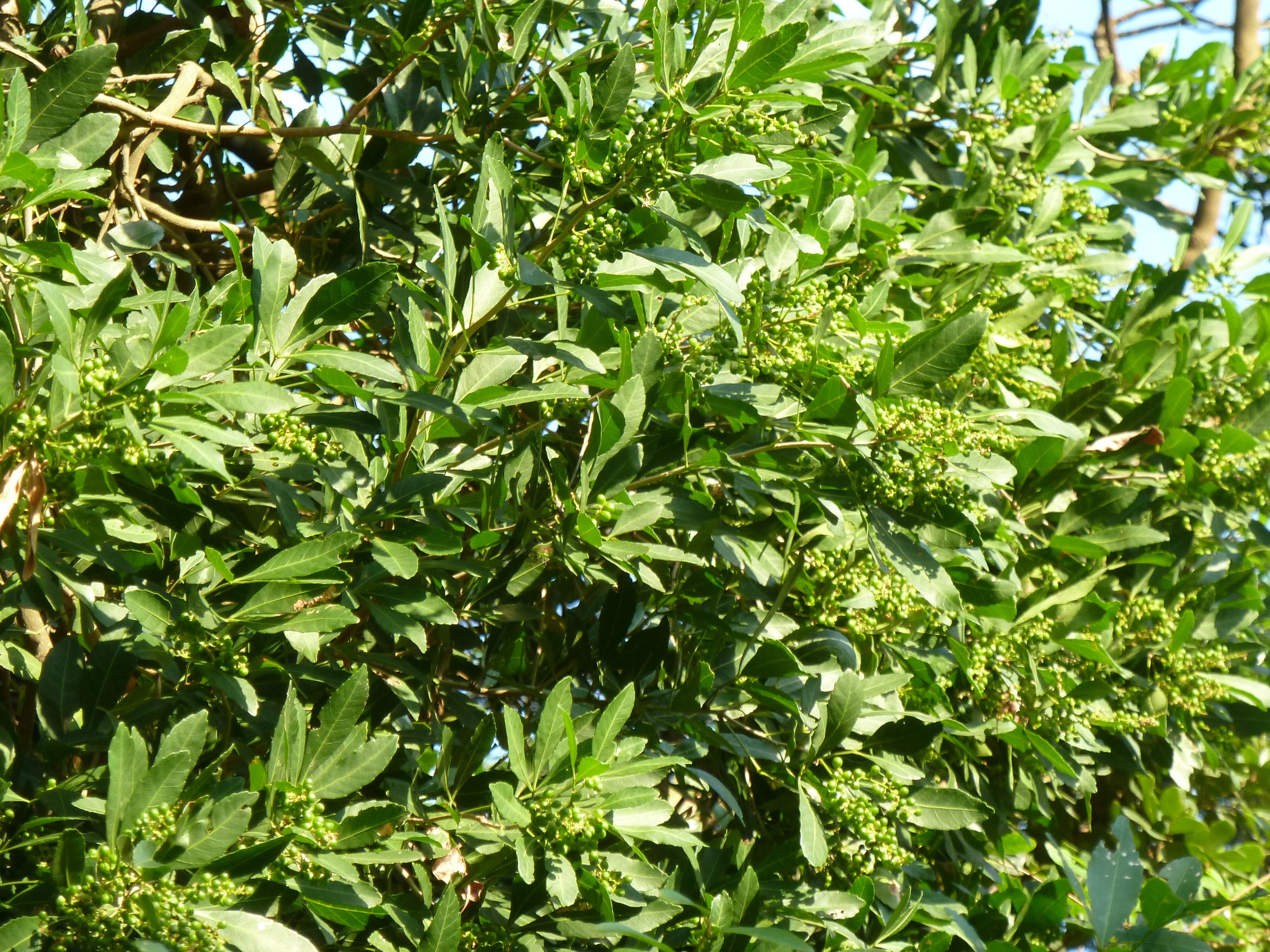 Canopy of a Dune false currant in the Umhlanga Lagoon Nature Reserve, KwaZulu-Natal